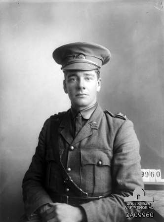 Studio portrait of Lieutenant (Lt) Thomas Karran Maltby, 8th Reinforcements, 5th Battalion, of Victoria. Maltby would later become a politician and Member of the Victorian Legislative Assembly for 32 years.